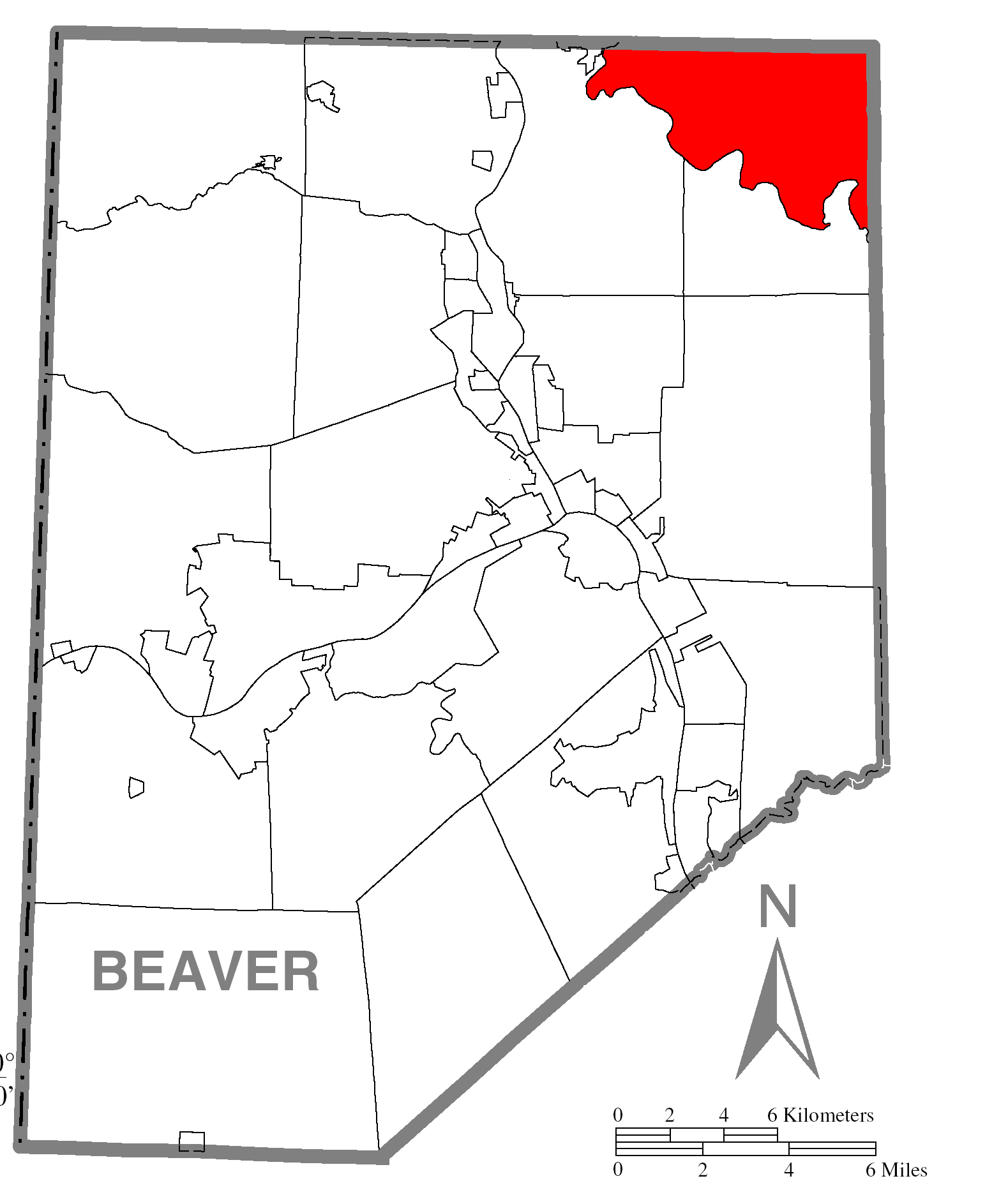 A map of Beaver County showing Franklin Township, Pennsylvania (alternate) highlighted on the map.